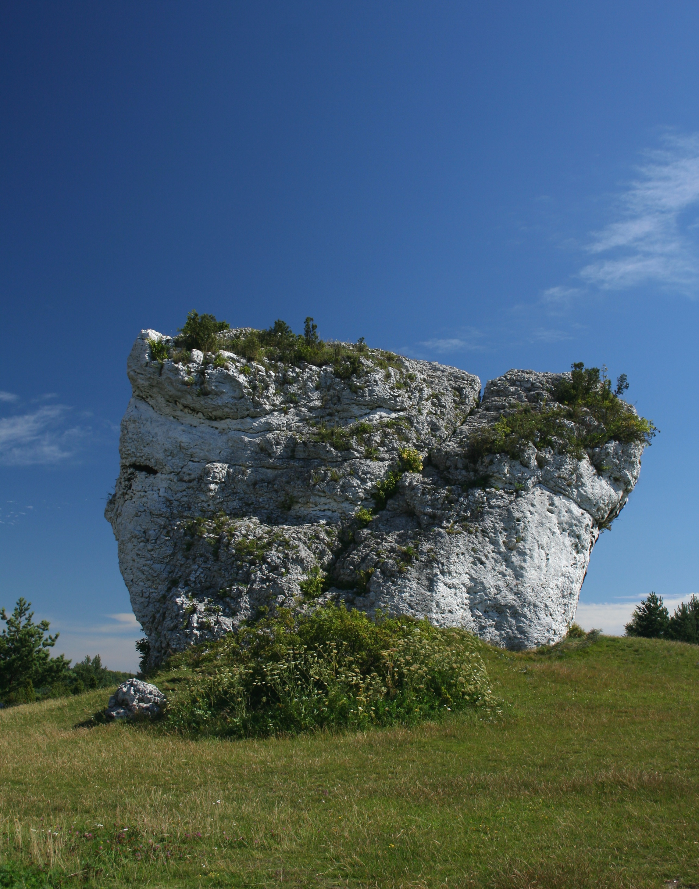 The Monadnock in Mirów, Poland